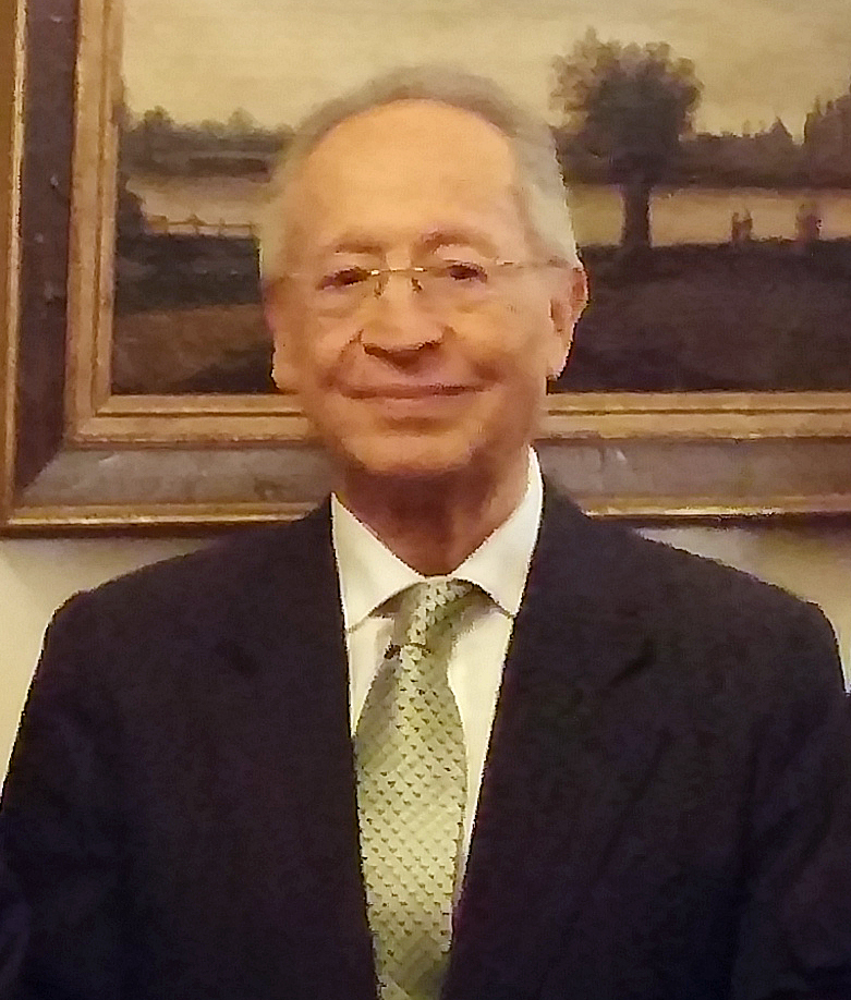 Left-to-right: Secretary-General elect Mr Kitack Lim, Secretary-General Emeritus Mr William A. O’Neil (IMO Secretary-General 1990-2003); Secretary-General Emeritus Mr. Efthimios E. Mitropoulos (IMO Secretary-General 2004-2011); IMO Secretary-General Mr. Koji Sekimizu (IMO Secretary-General 2012-2015).